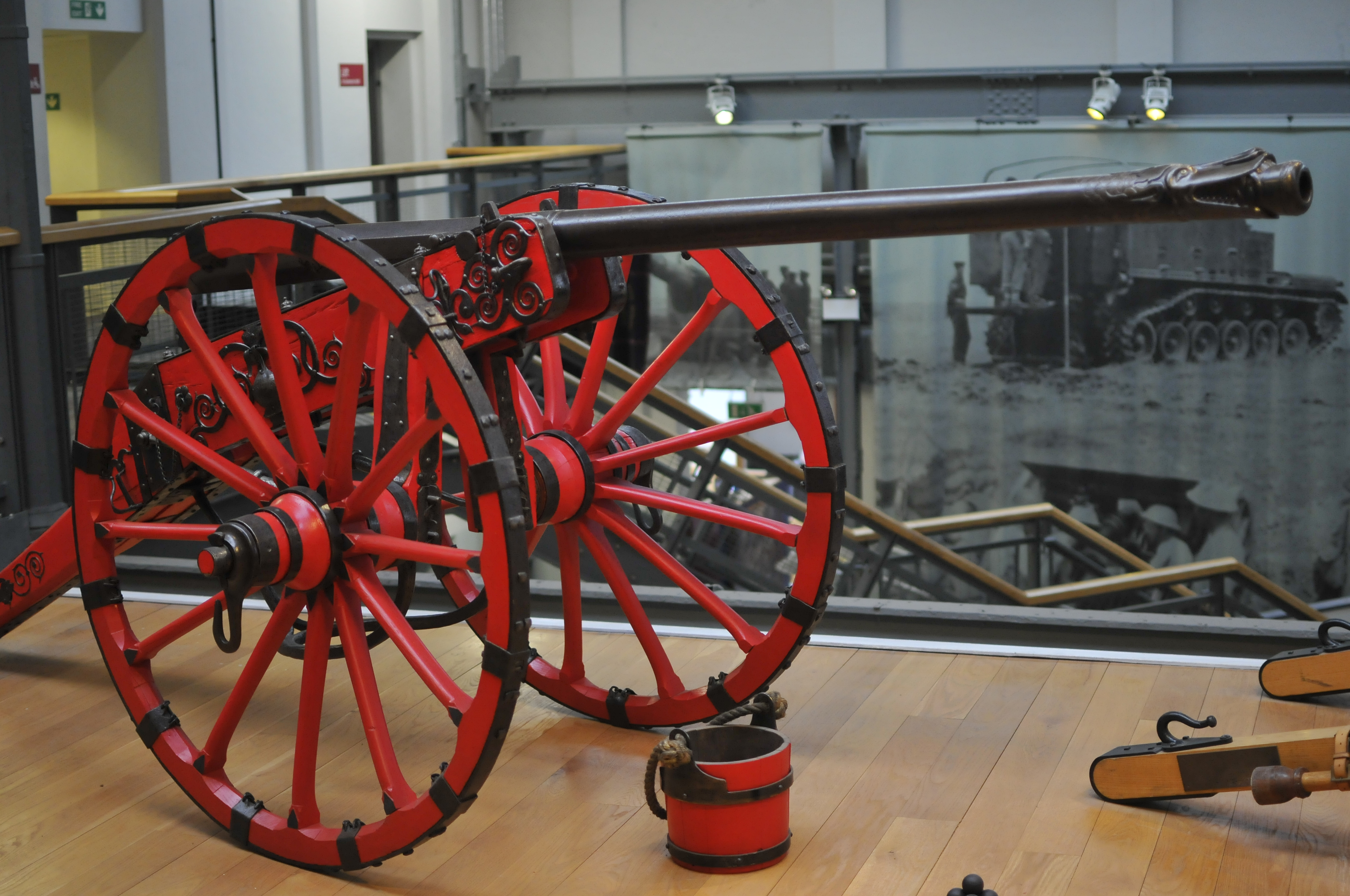 Typical of field guns used during the English civil war.